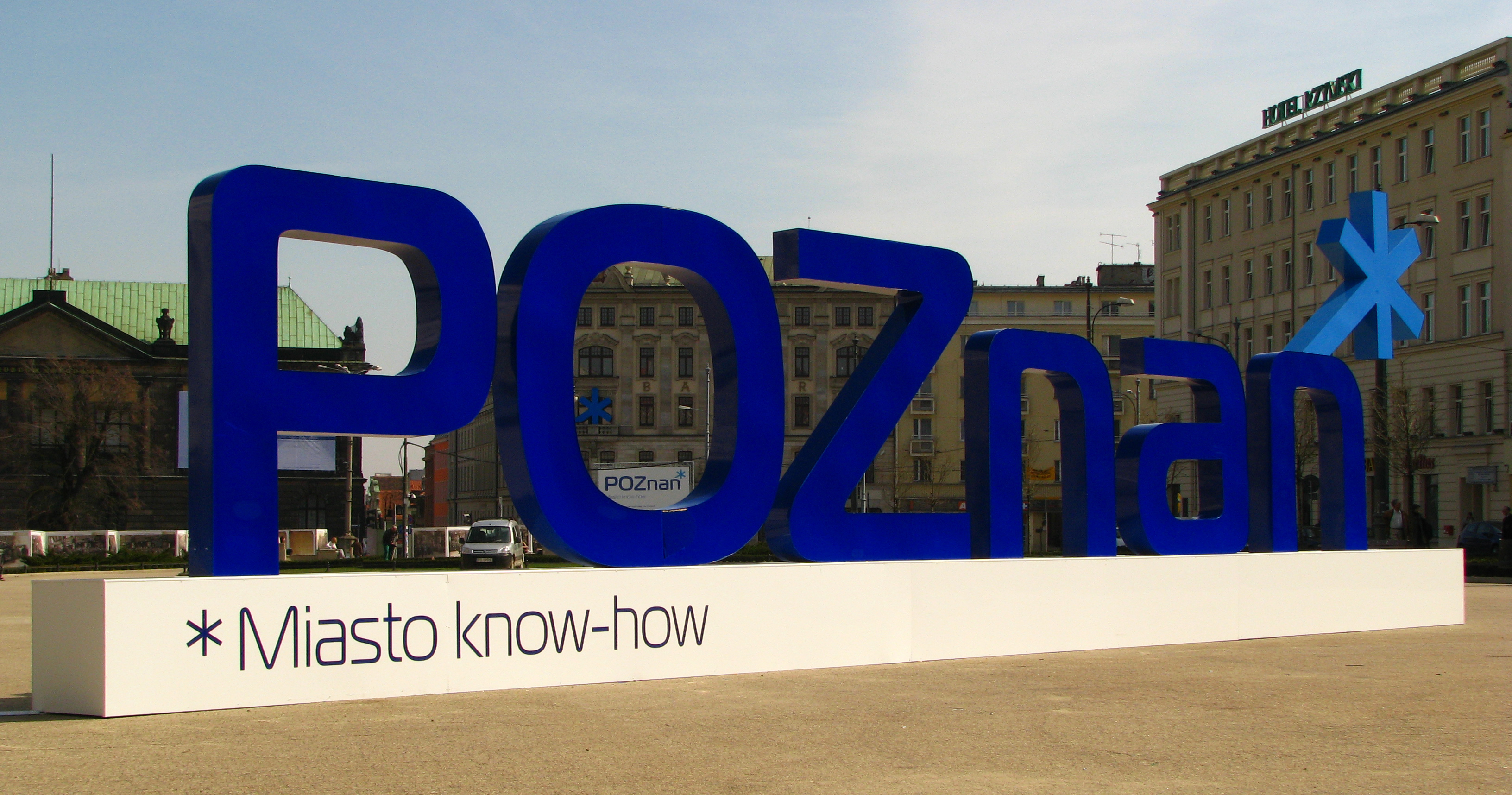 Logo of city Poznań. Poland.